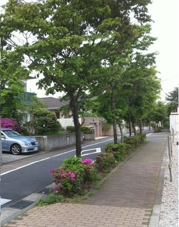 Koyama 7 Chome (2012) _Senzoku-Den-en-Toshi